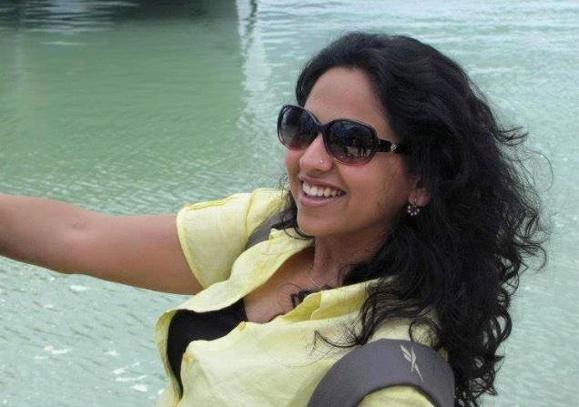 Swanandi Uday Tikekar / As Minal in Dil Dosti Duniyadari